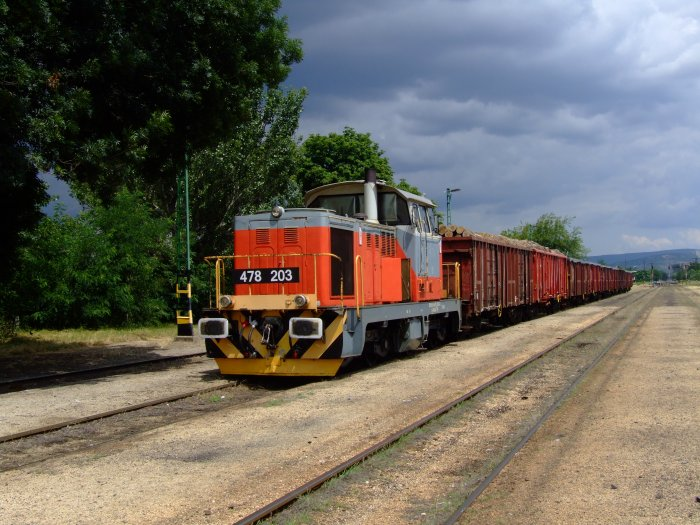 Csomóponti kiszolgáló tehervonat Tokodon